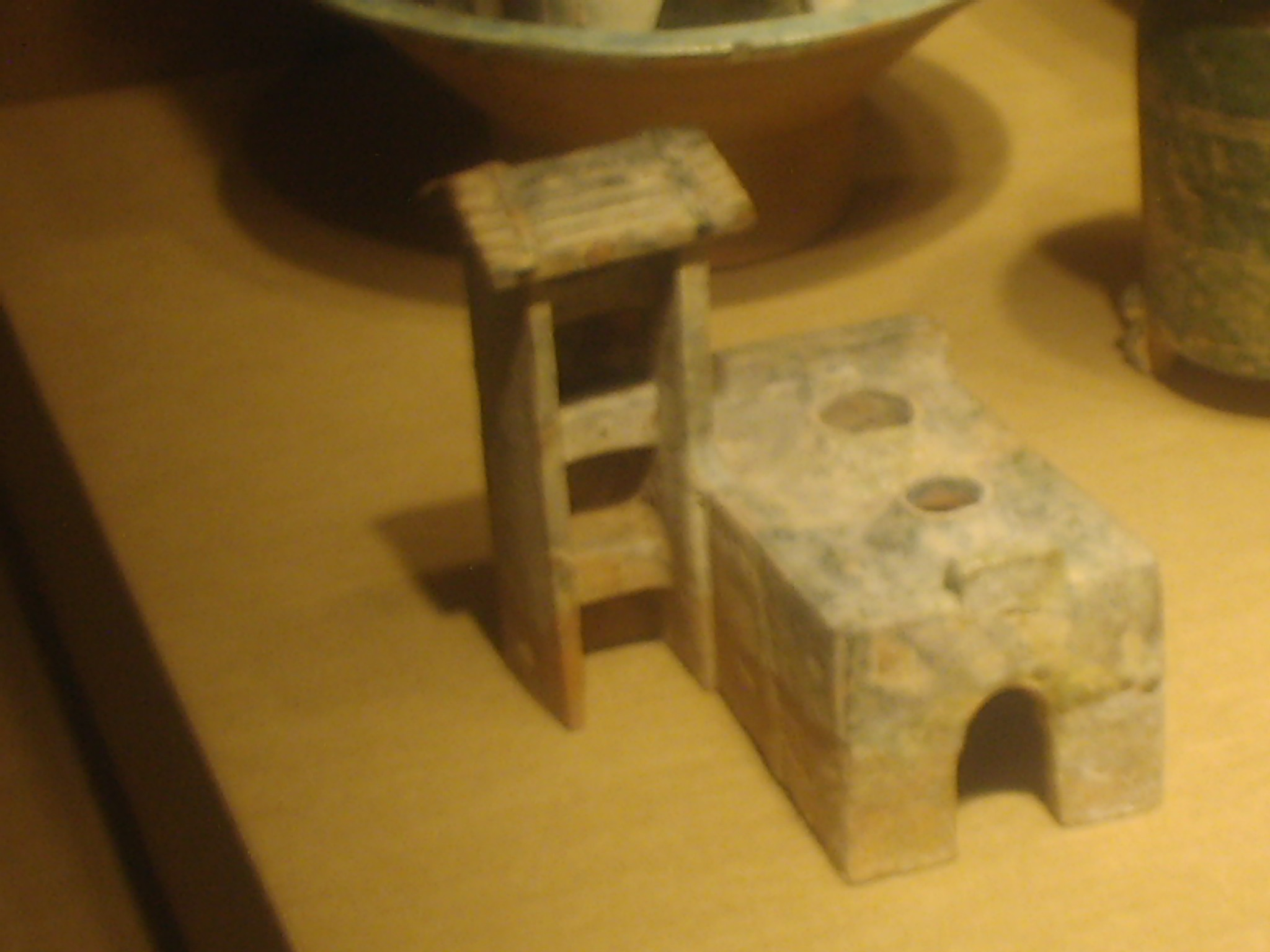 Close up of a model stove furnace. This is one of twelve pictures showing architectural models dated to the Chinese Eastern Han Dynasty (25–220 AD), made of earthenware with a green lead glaze, featured at the Metropolitan Museum of Art in New York City. The items include: Three watchtowers House with a courtyard Granary tower A large stove A mill A wellhead with a bucket Domesticated animal pens A square duck pond with rails